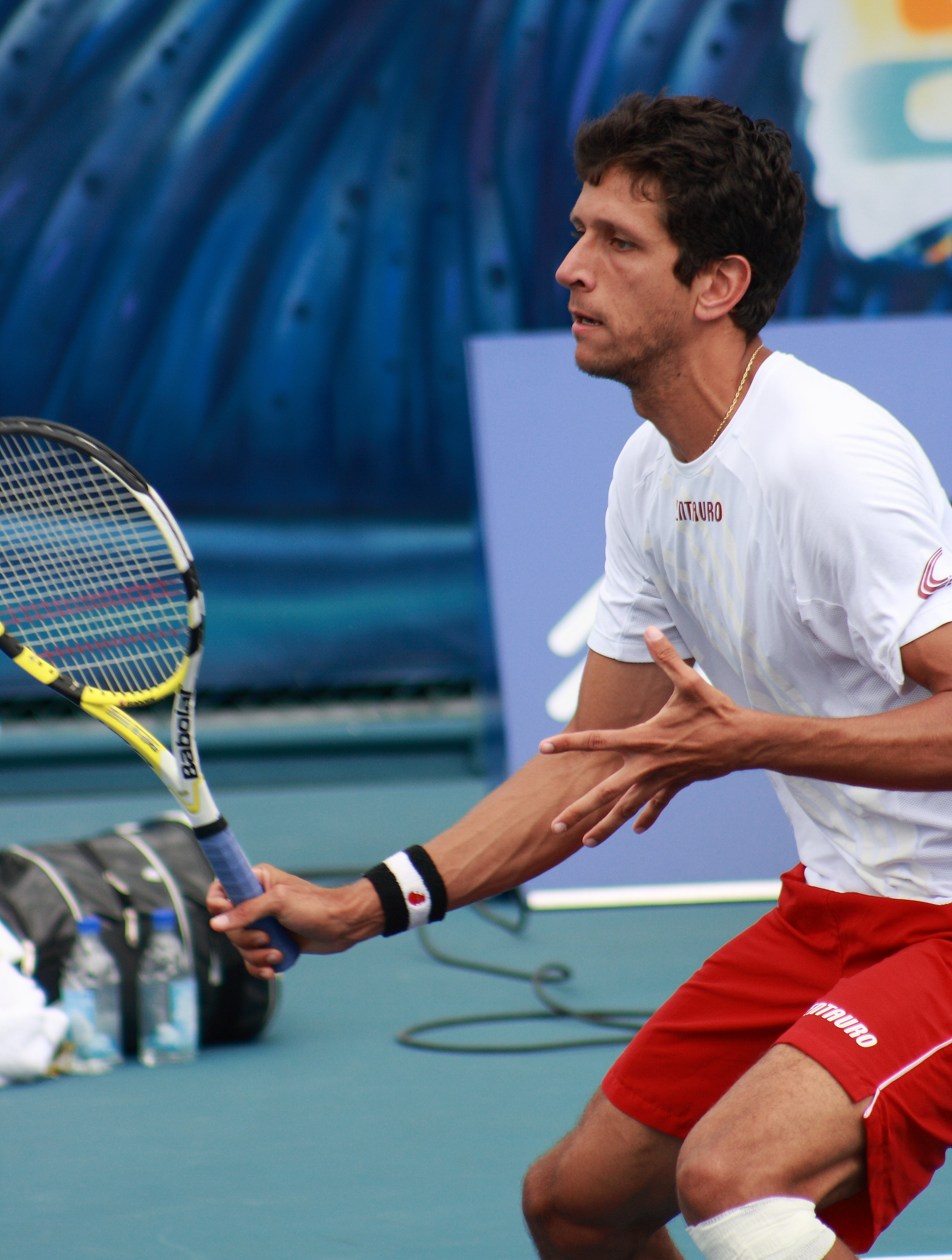 Marcelo Melo at 2009 Delray Beach International Tennis Championships, Delray Beach, Florida, United States